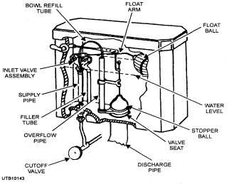 Diagram the various parts of a toilet tank. This diagram was taken from a U.S. Navy training manual, which the Navy identifies as document number "NAVEDTRA 14265" with a title of "Utilitiesman basic volume 1".